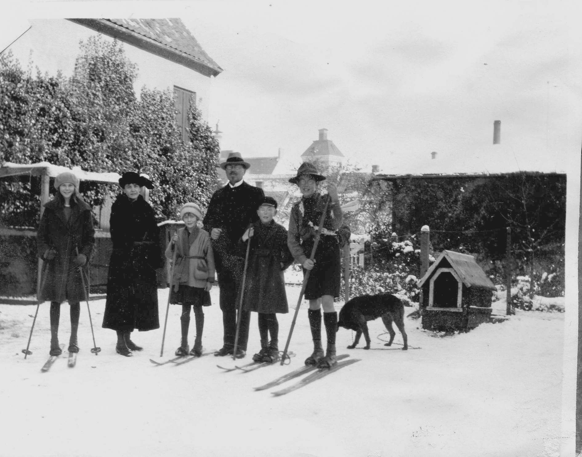 The Hammar on skies in Ystad, Sweden. From left to right: Mireille, Hulda, Ulla, Josef, Gösta and Frank.